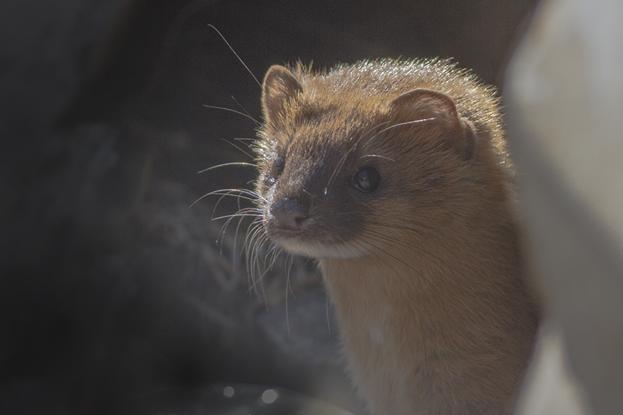 The species Siberian Weasel had been photographed during the wildlife photography trip of GoingWild in Pangolakha Wildlife Sanctuary in East Sikkim , India on 14.02.2016.